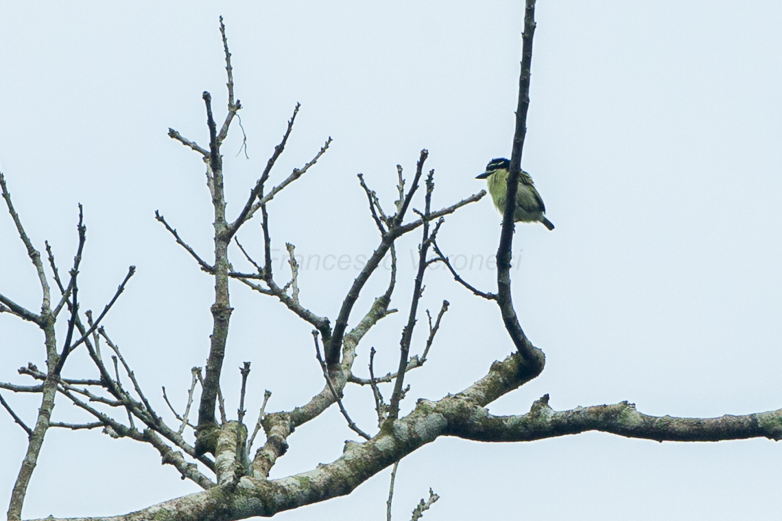 An Yellow-throated Tinkerbird (Pogoniulus subsulphureus) in the Kakum National Park (Ghana)